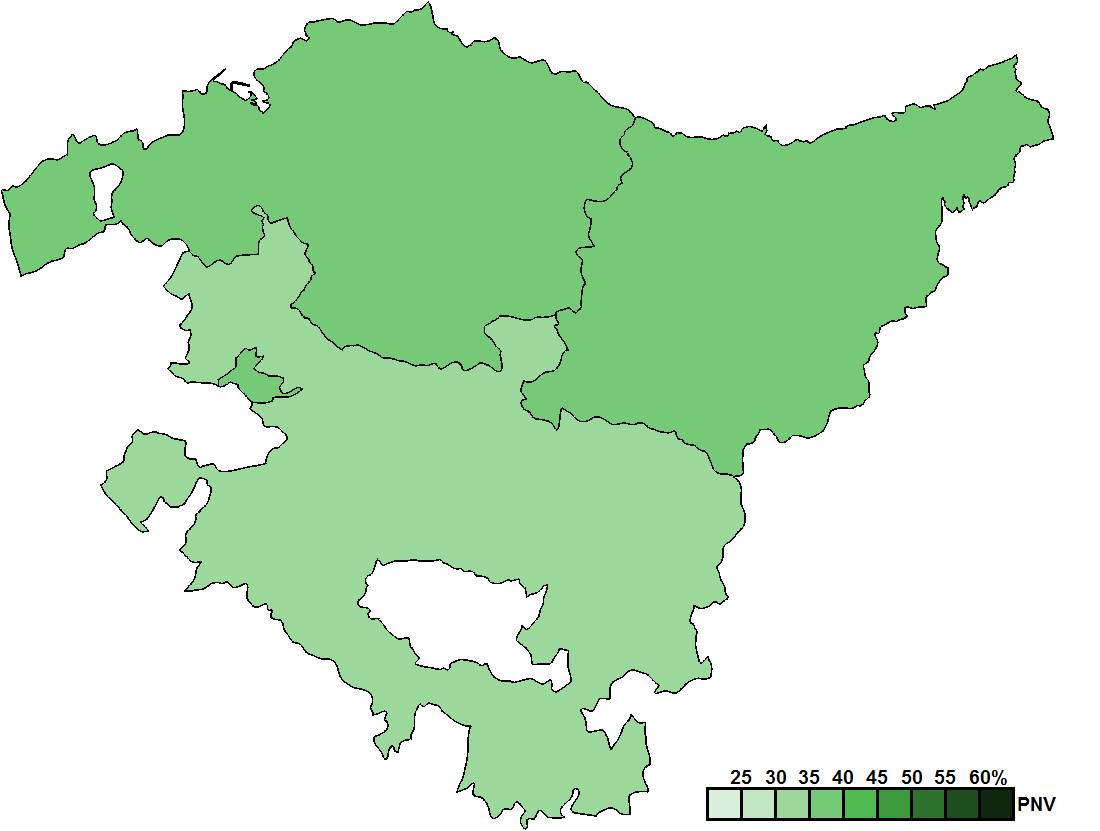 Provincial results for the 1980 Basque regional election.